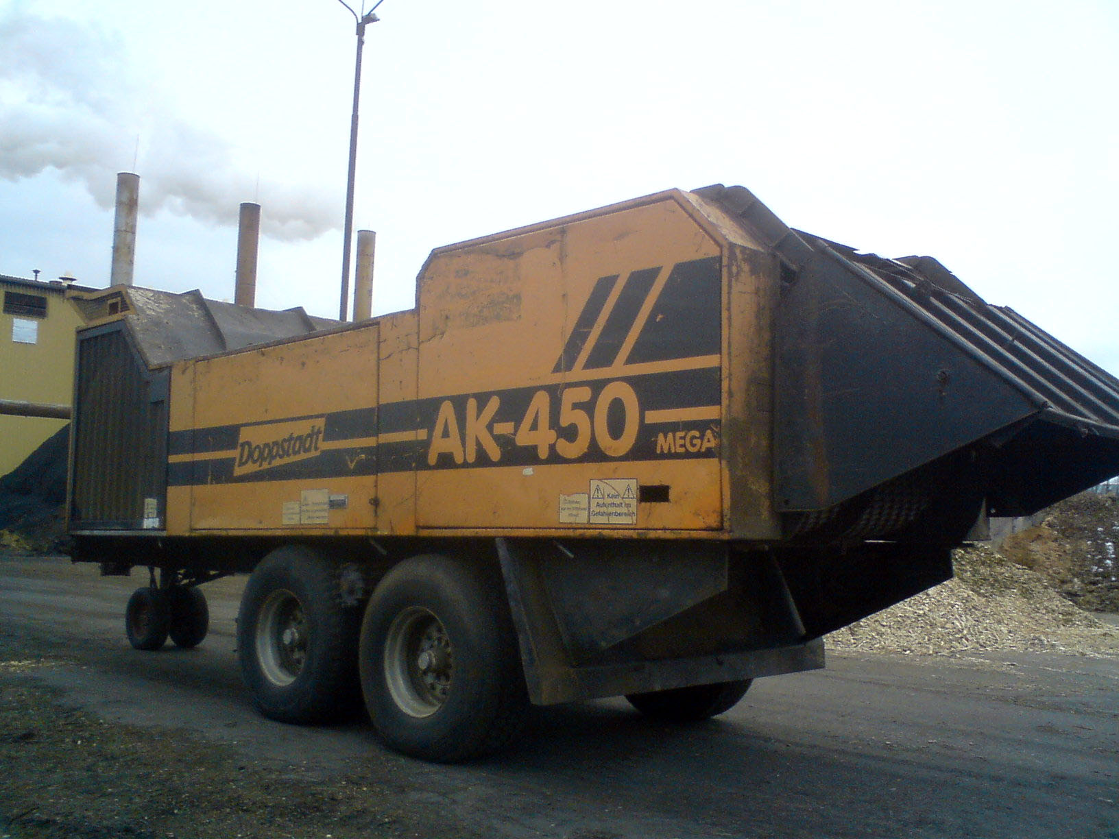 Doppstadt AK-450 Mega, trailed woodchipper/shredder